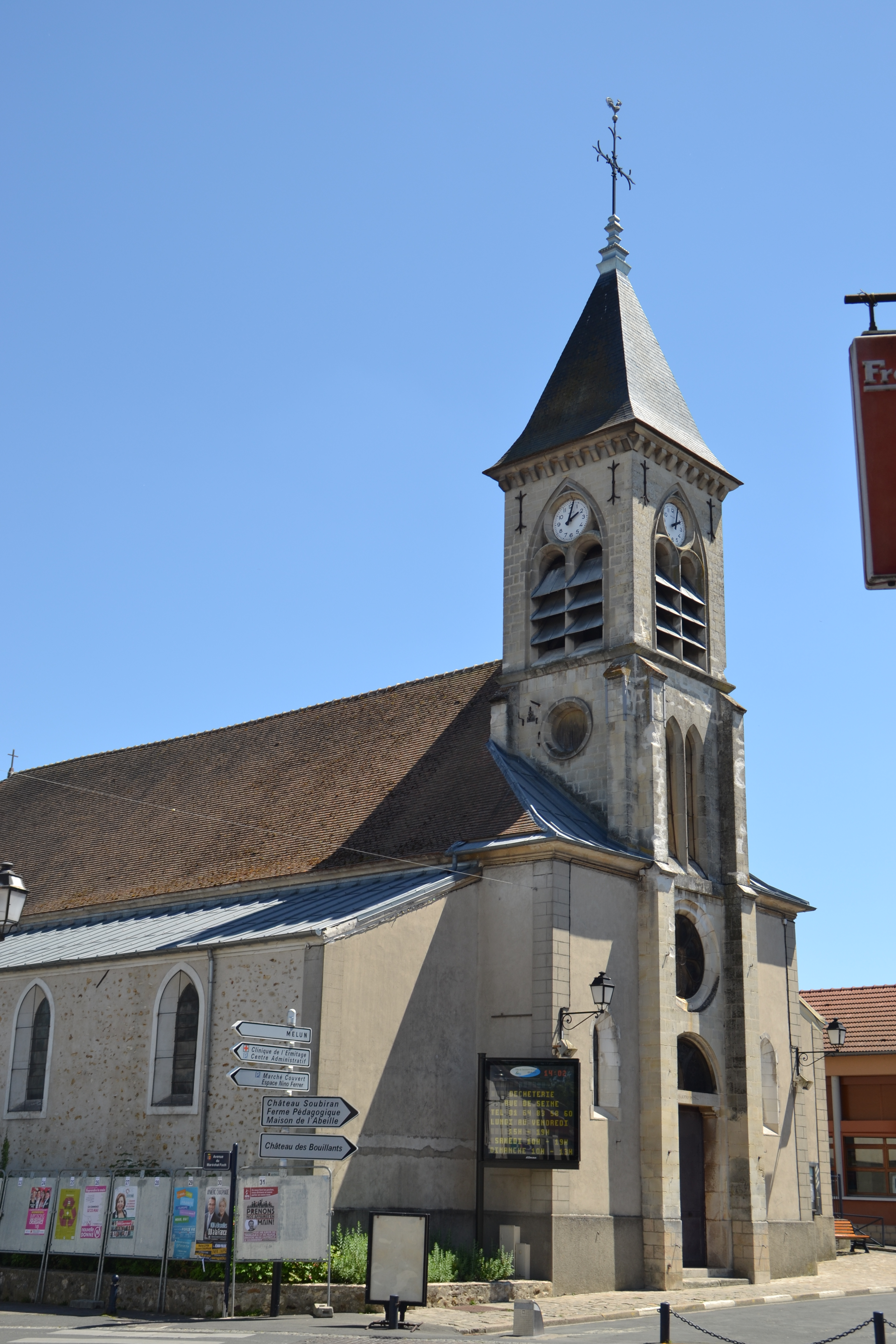 the church